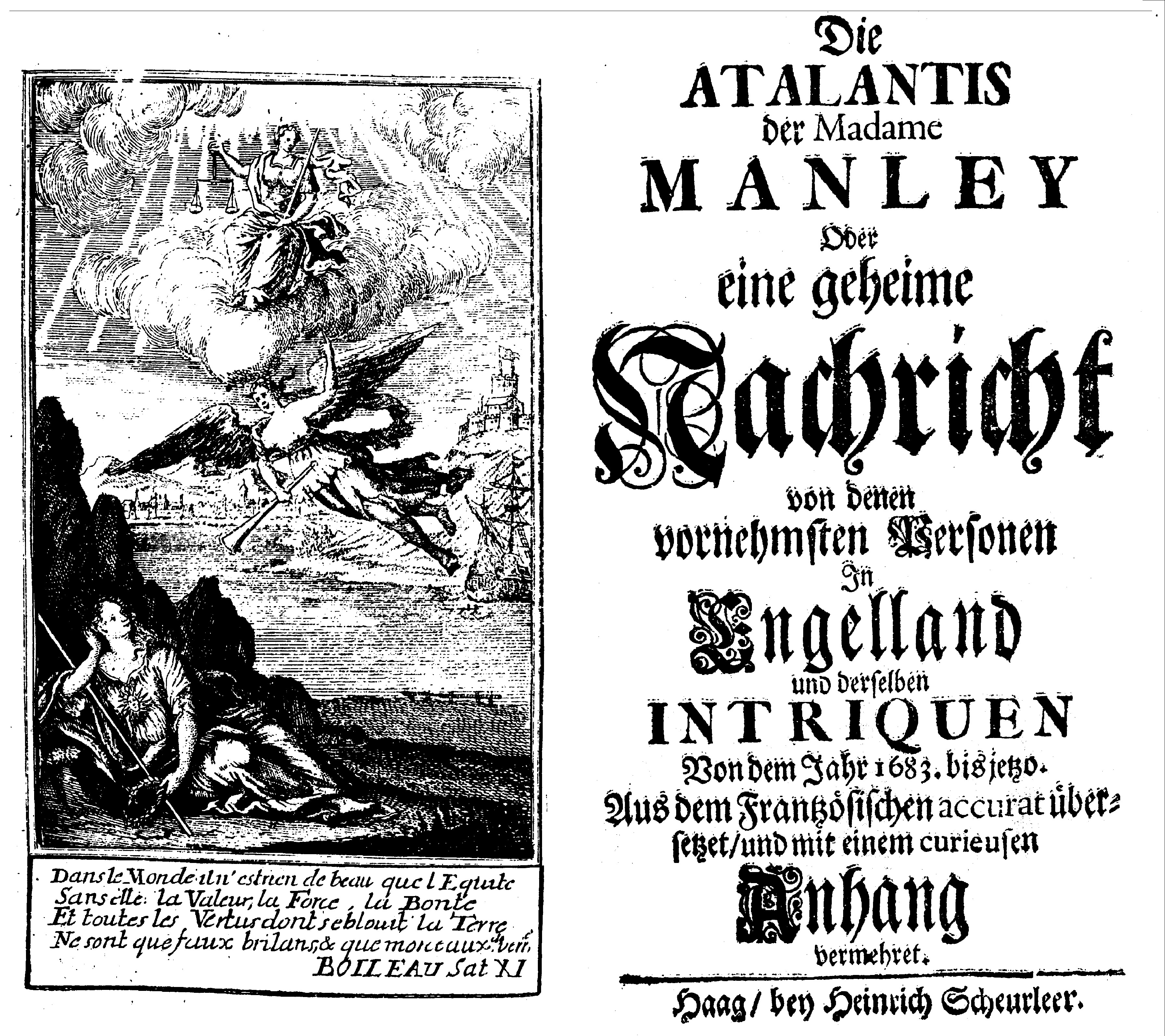 German (abridged) Version of Delarivier Manley's New Atalantis (1713)